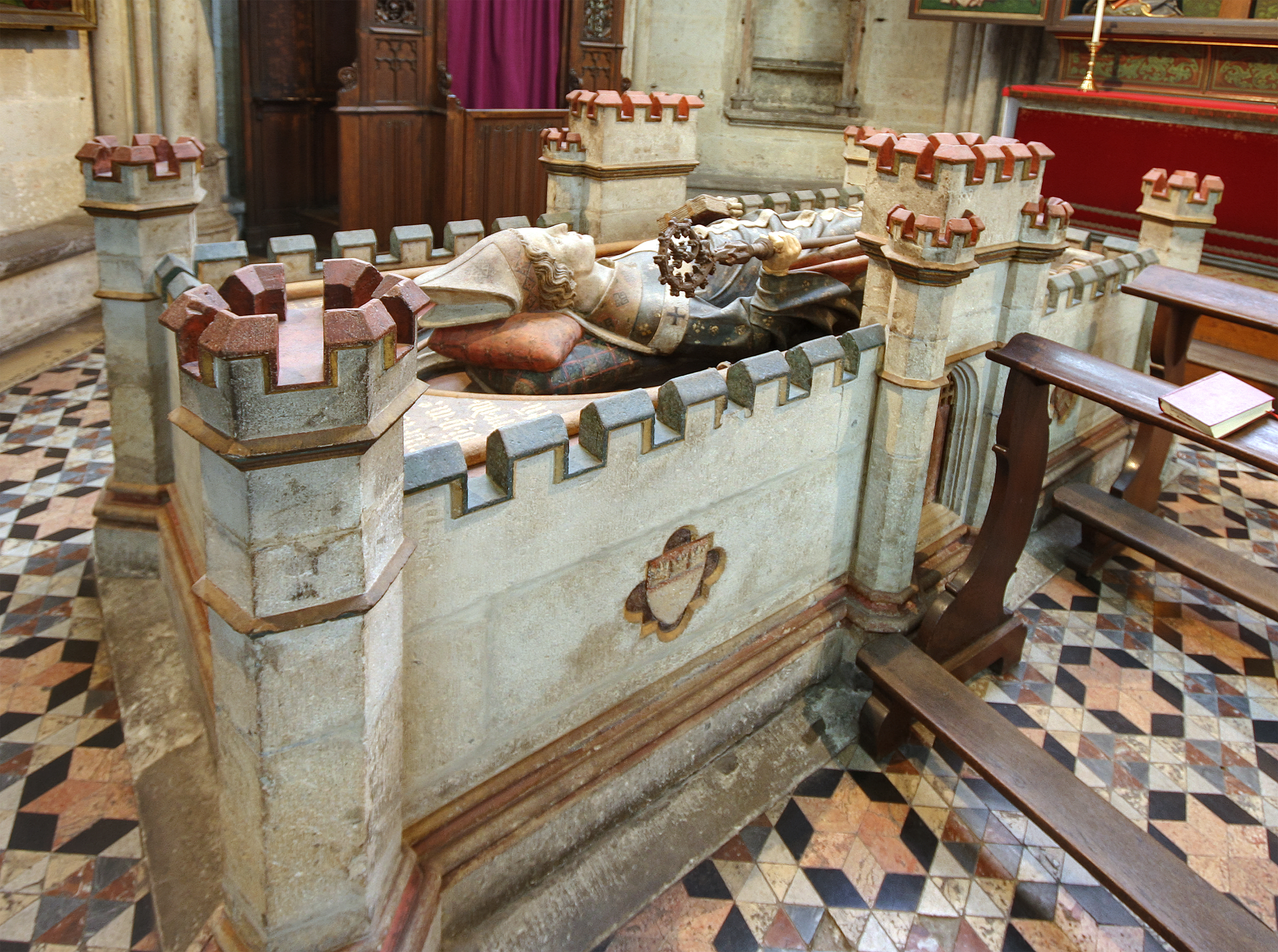 Tomb of Archbishop Philipp I. von Heinsberg, (1167-1191), around 1300